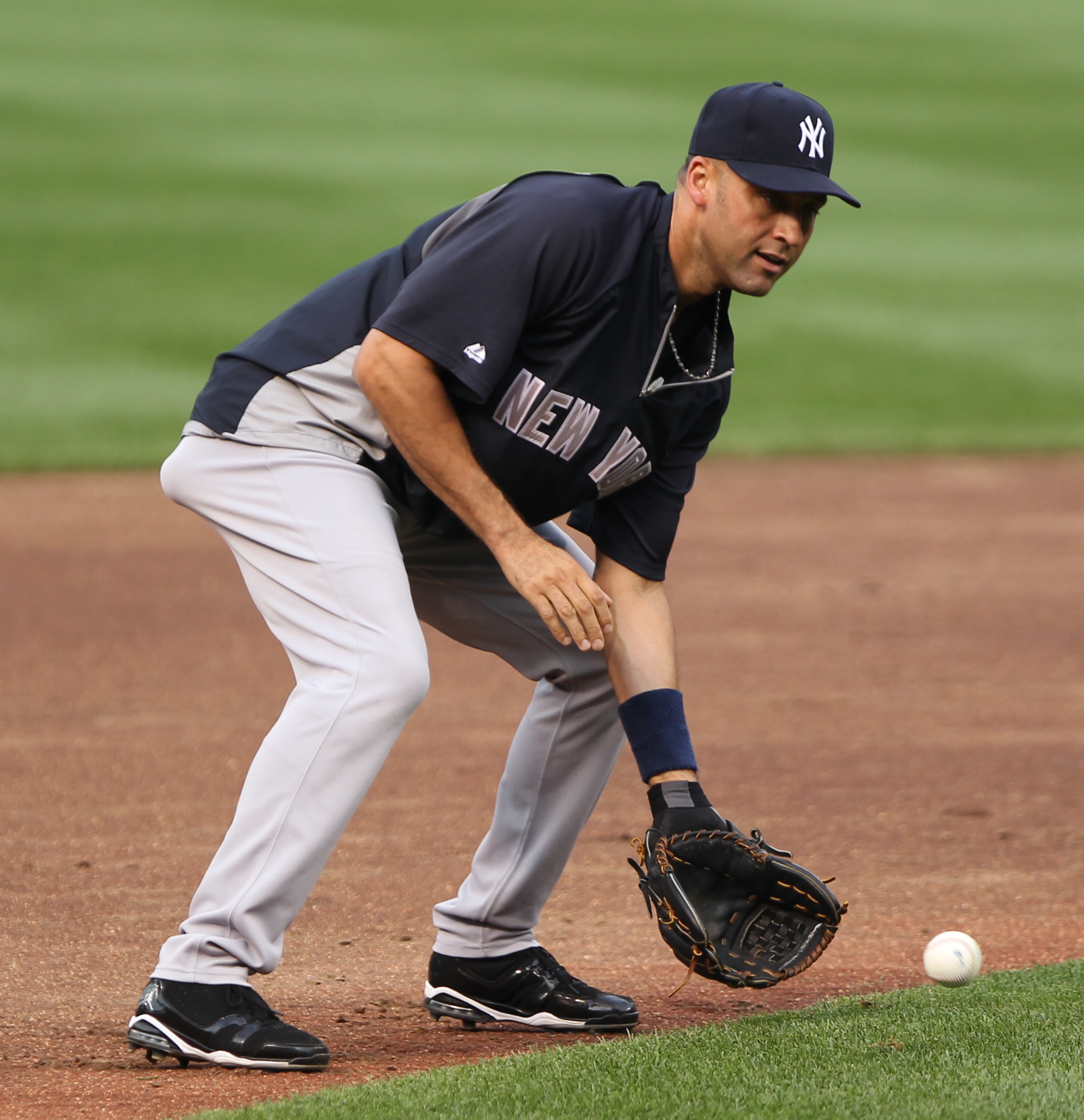 Derek Jeter practices fielding ground balls prior to a game between the New York Yankees and the Baltimore Orioles on August 26, 2011